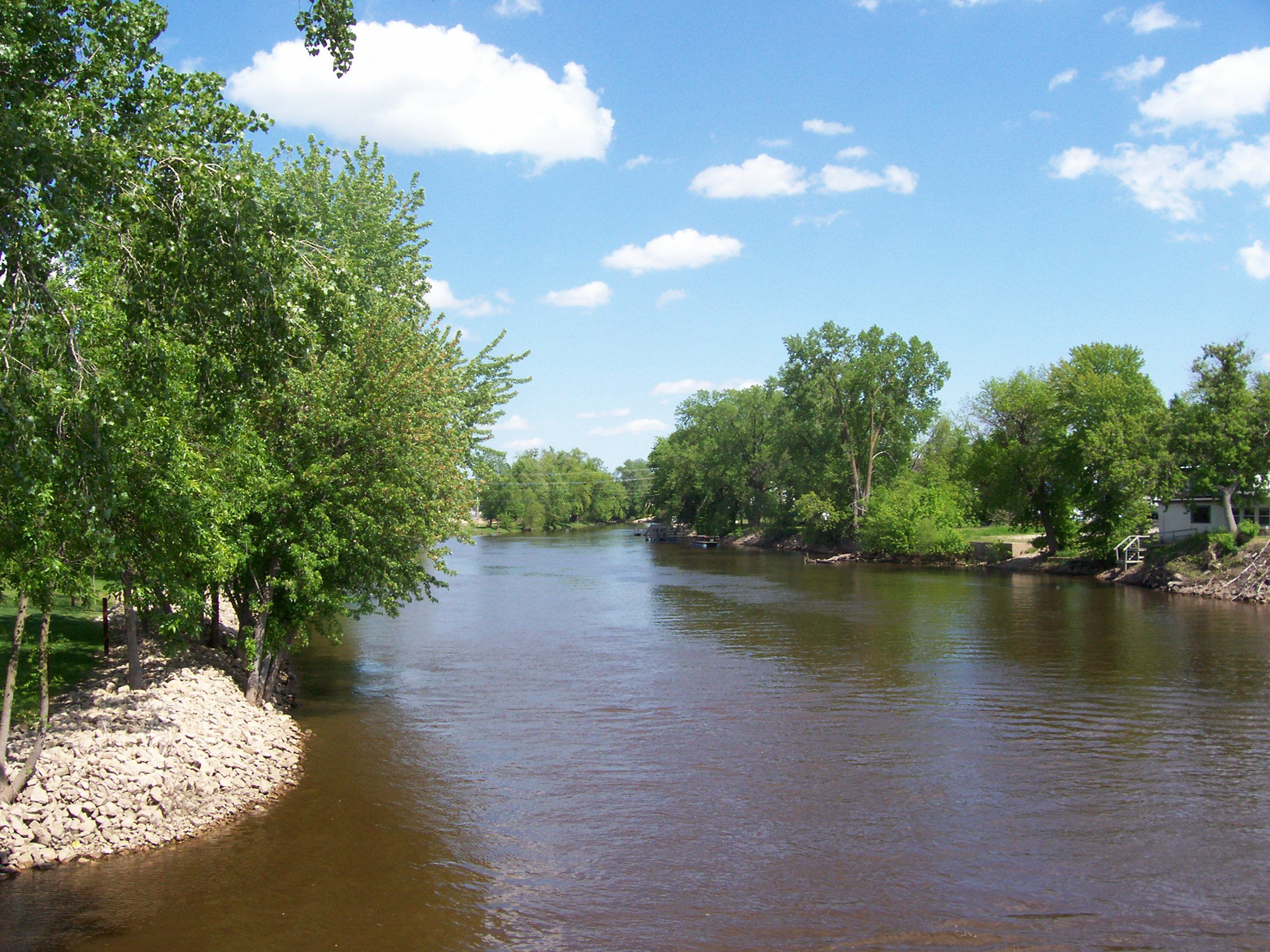 Looking west off a bridge at the Wolf River (Fox River) in downtown New London, Wisconsin, U.S.